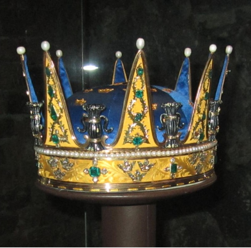 Coronet of a Prince of Sweden (made for Prince Charles, Duke of Sudermania, in the early 1770s) as shown to public on National DayPlace: Royal Treasury, Stockholm Palace, Sweden